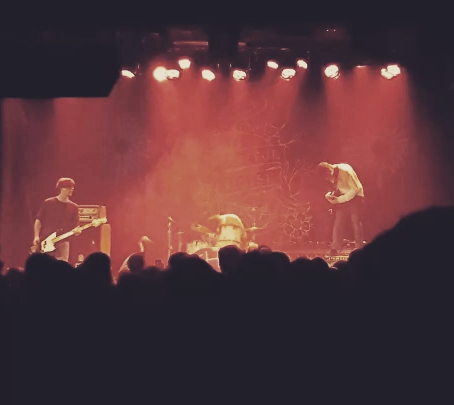 False Heads performing at A Peaceful Noise, London